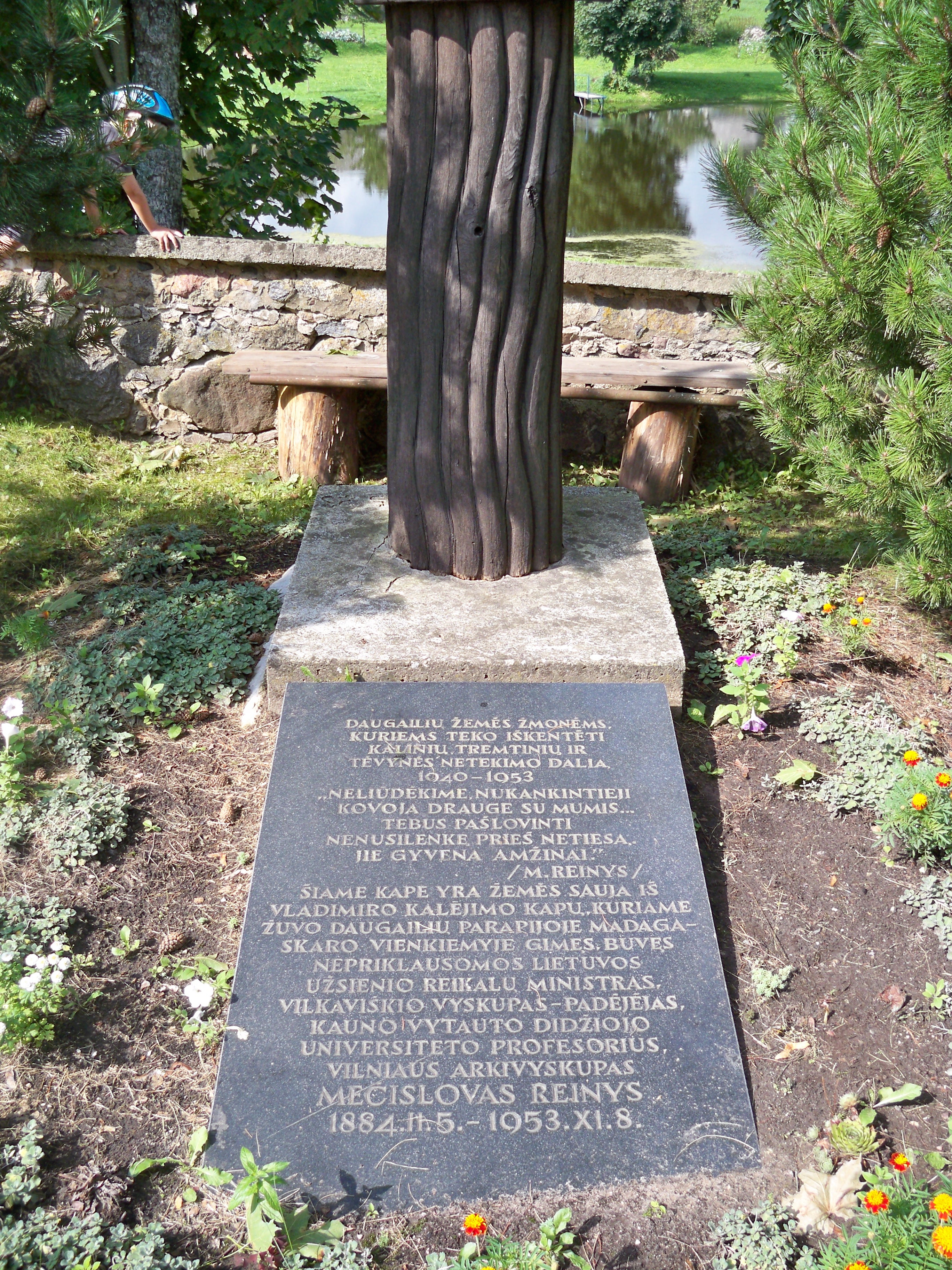 Daugailiai churchyard: Mečislovas Reinys monument.